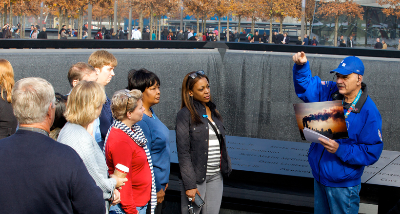 Guided tour around the National September 11 Memorial in New York City